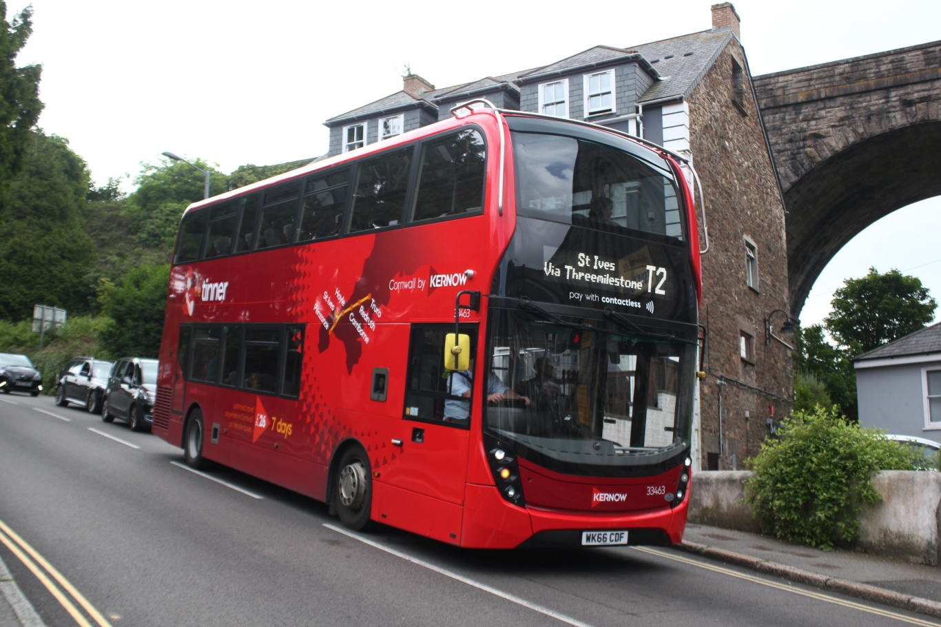 First Kernow Enviro400 MMC bus 33463, which is registered WK66CDF, descends Station Hill in Redruth while on 'Tinner' route T2 from Truro to St Ives.